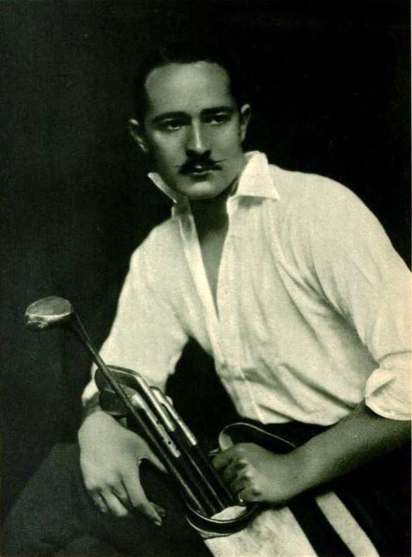 American actor Norman Kerry on page 14 of the October 1921 Photoplay.